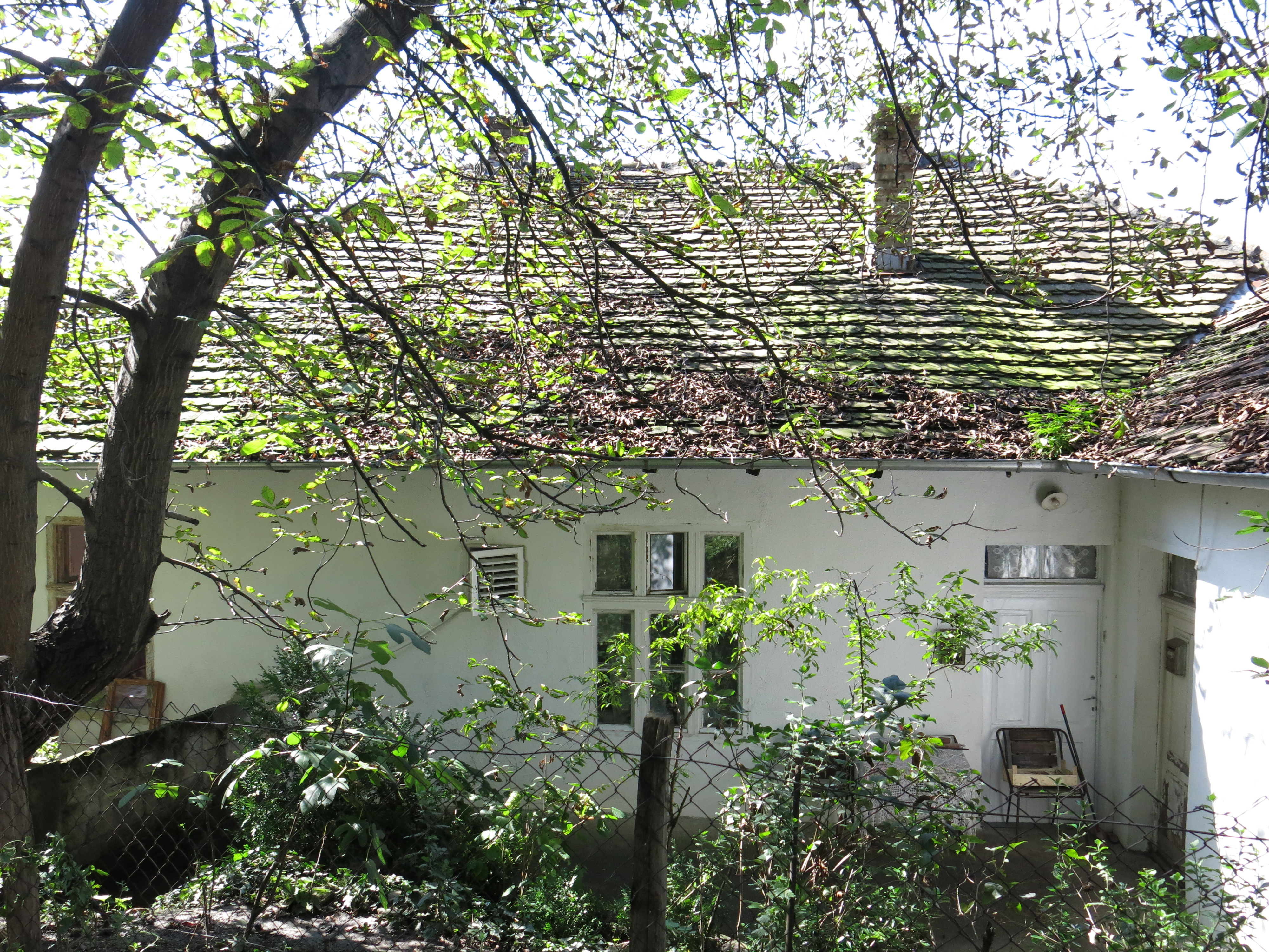 Home of Archibald Reiss in Belgrade, Serbia